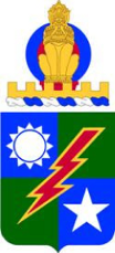 075th Infantry Regiment (Ranger) Coat of Arms